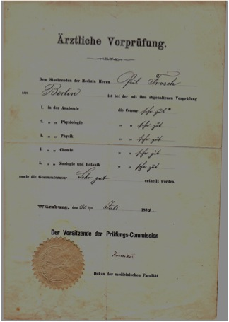 Transcript of the interim exam of the German medical degree